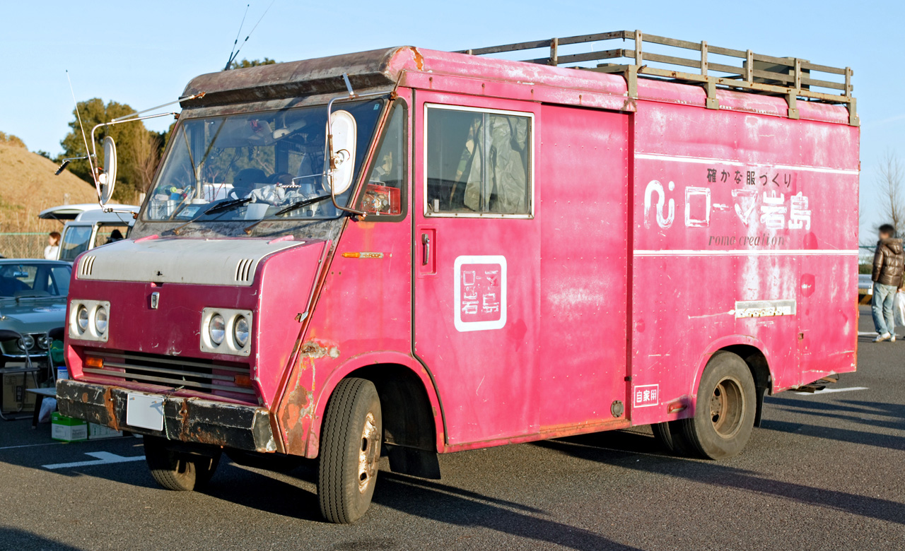 Isuzu Elf Hi-Roof ( TLD53VS )